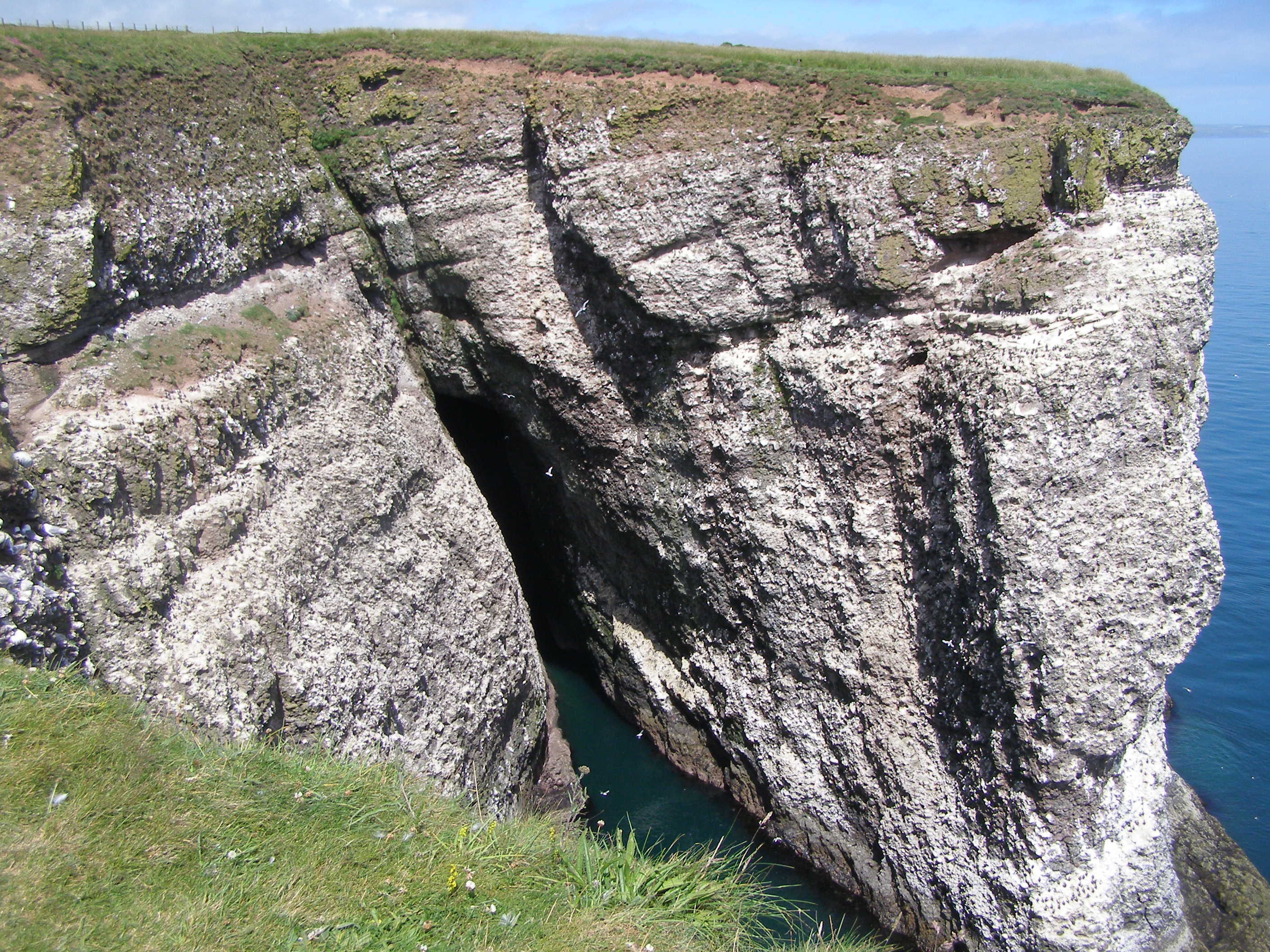 Fowlsheugh cliffs looking north from blufftop trail